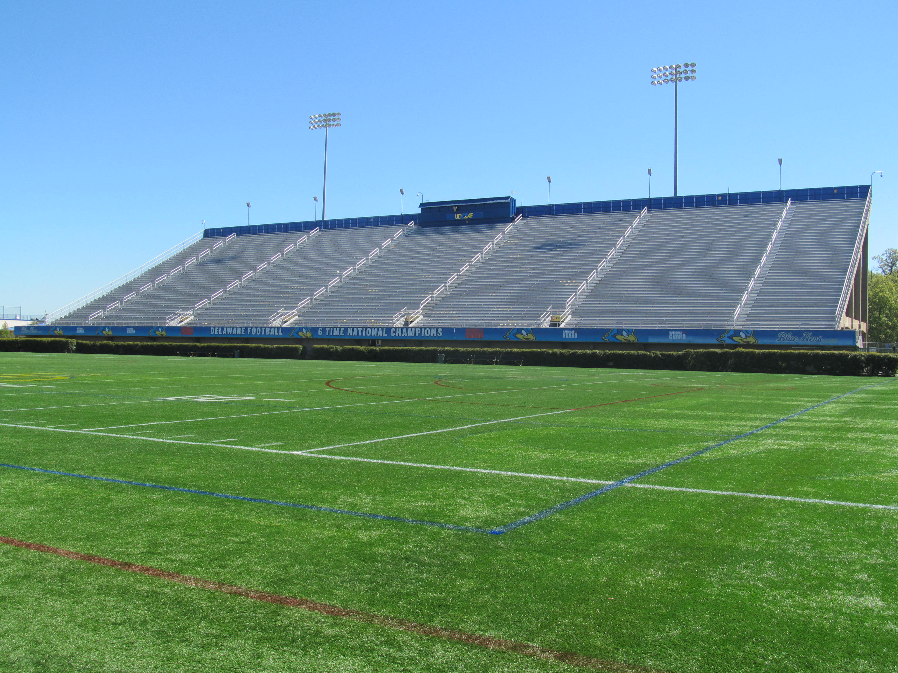 A view of the interior of Delaware Stadium facing the visitor's stands.